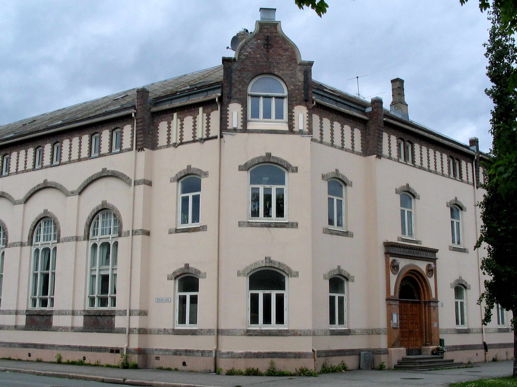 Trondheim baptist church, Norway